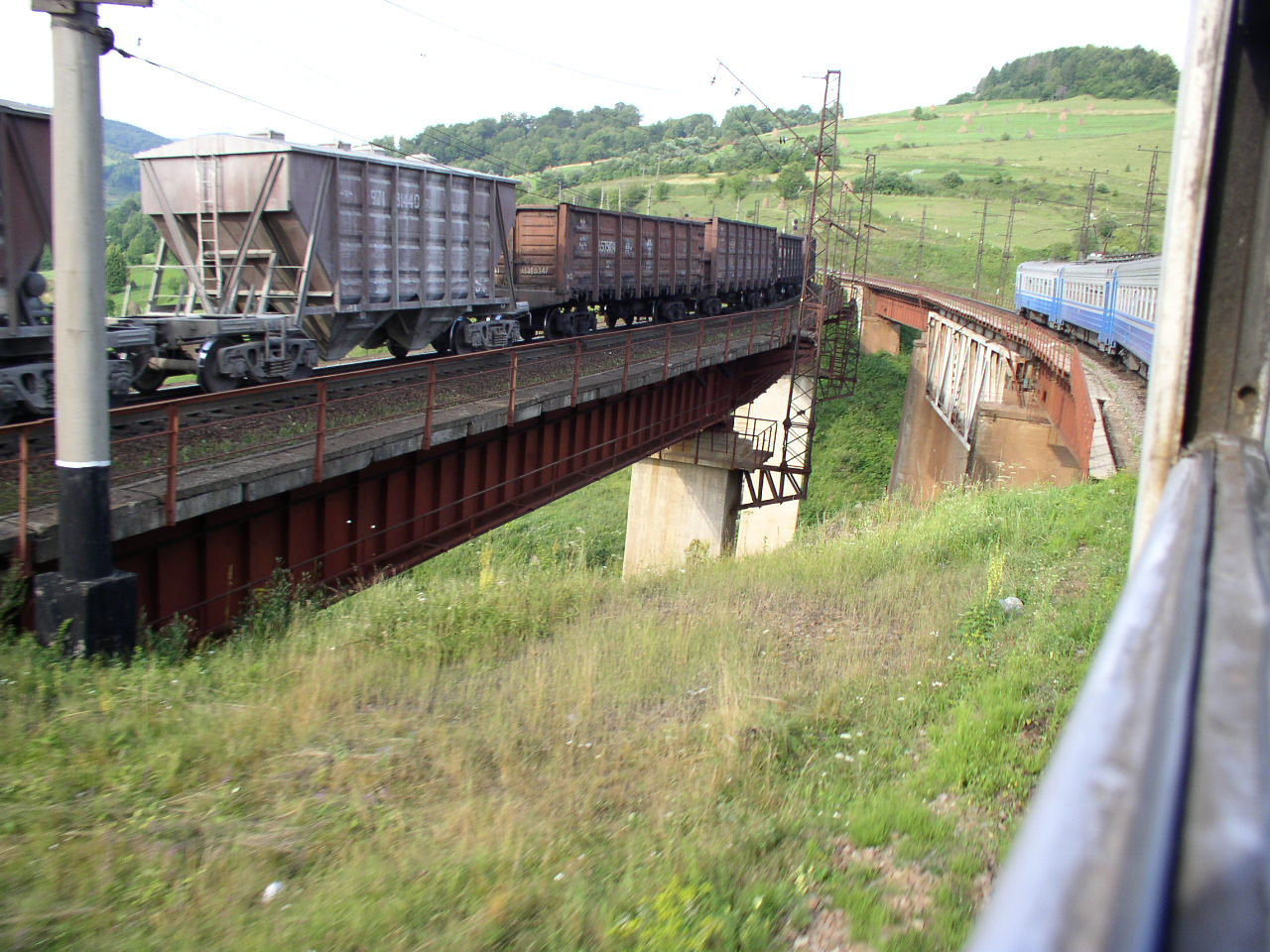 View from Kamianka-Buzka-Skole-Volovets railroad, Ukraine. Double bridge east of Нижній Кінець, Skotarske (Скотарське), Volovets Raion, Zakarpattia Oblast.